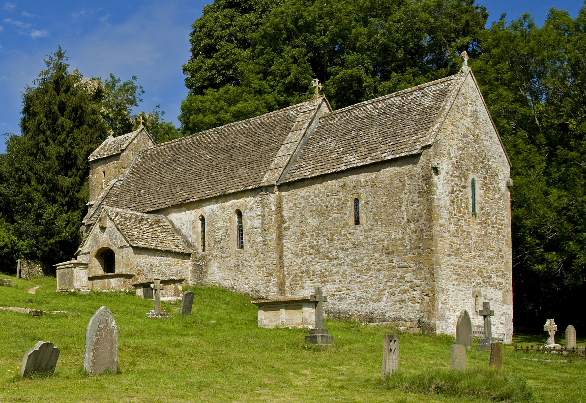 St Michael's Church is an Anglican church in the Cotswold village of Duntisbourne Rouse, Gloucestershire, England. It dates from the 11th or 12th century and has been designated a Grade I listed building by English Heritage